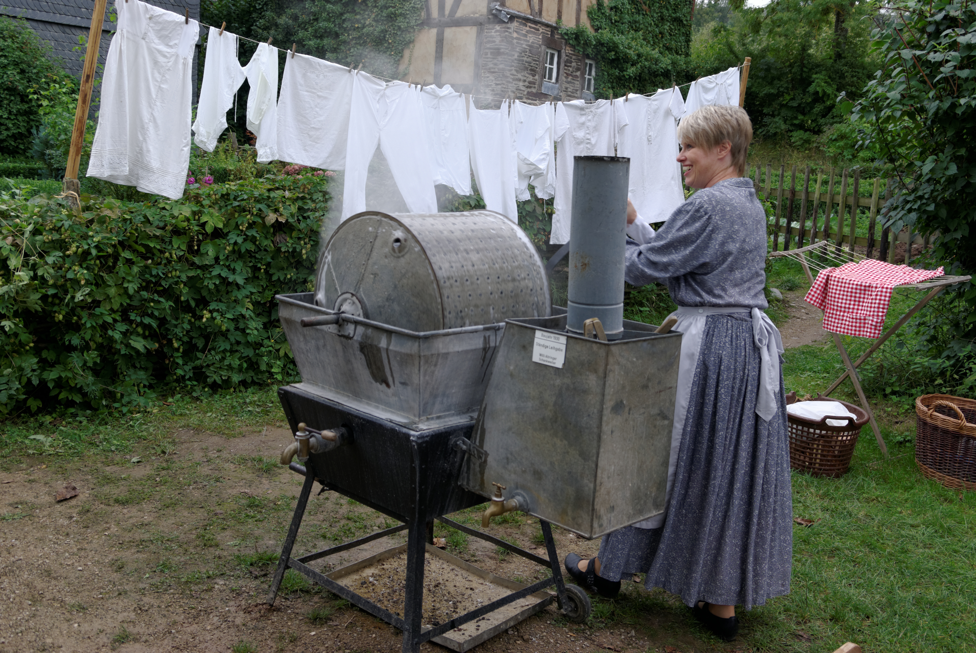 Roscheider Hof Open Air Museum, Farmers' and craftsmen's day